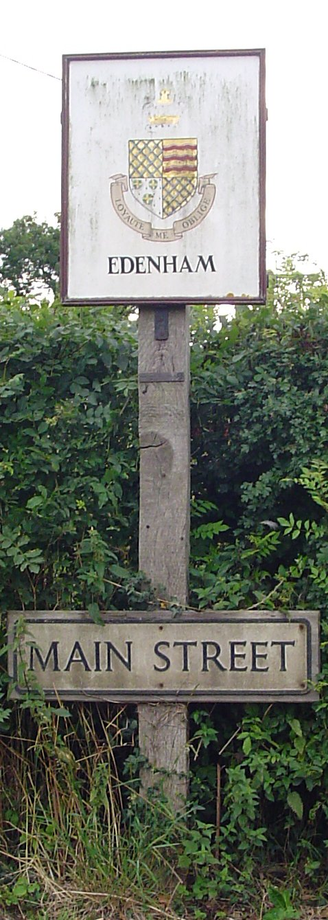 Signpost in Edenham